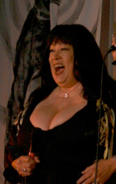 Tura Satana appearing on Peaches Christ's Midnight Mass show, 14 July 2007. Image enhanced detail.